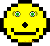 The smiley face of Acid2 version 1.0 viewed with Opera 9.25